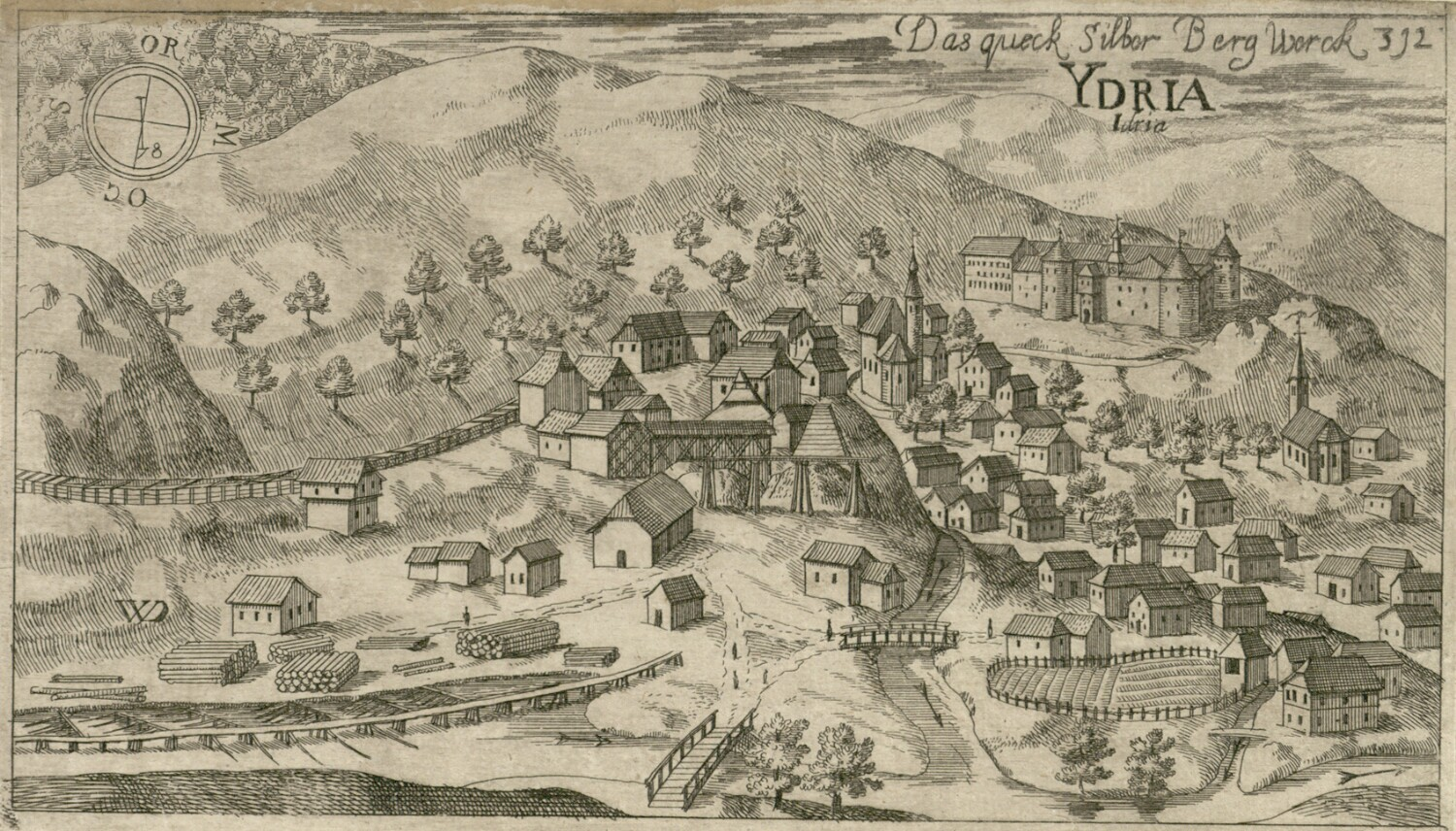 This image shows the mercury mine in Idrija in Slovenia.